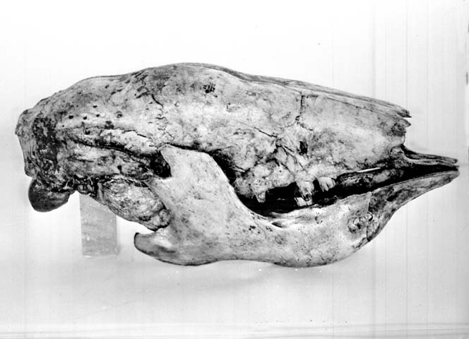 Skull of ground sloth Nothrotheriops from rampart cave. Sept 1936. Nps.